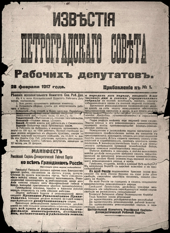 Appendix to the first edition of the "Izvestiya" newspaper